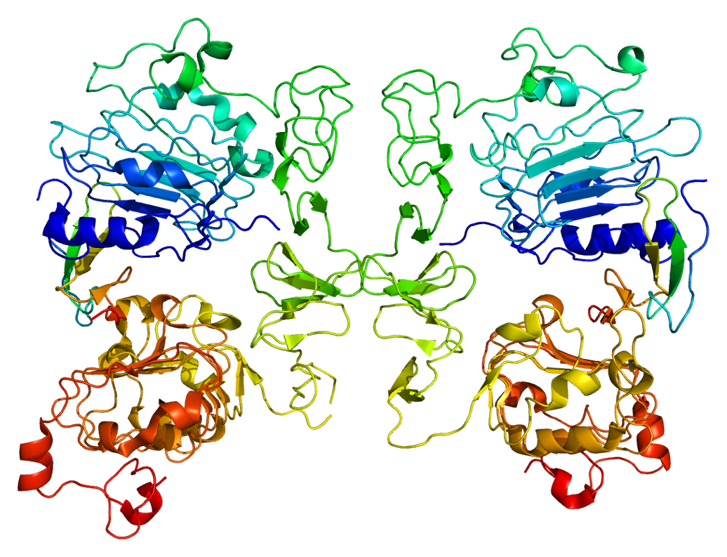 Structure of the TGFA protein. Based on PyMOL rendering of PDB 1mox.